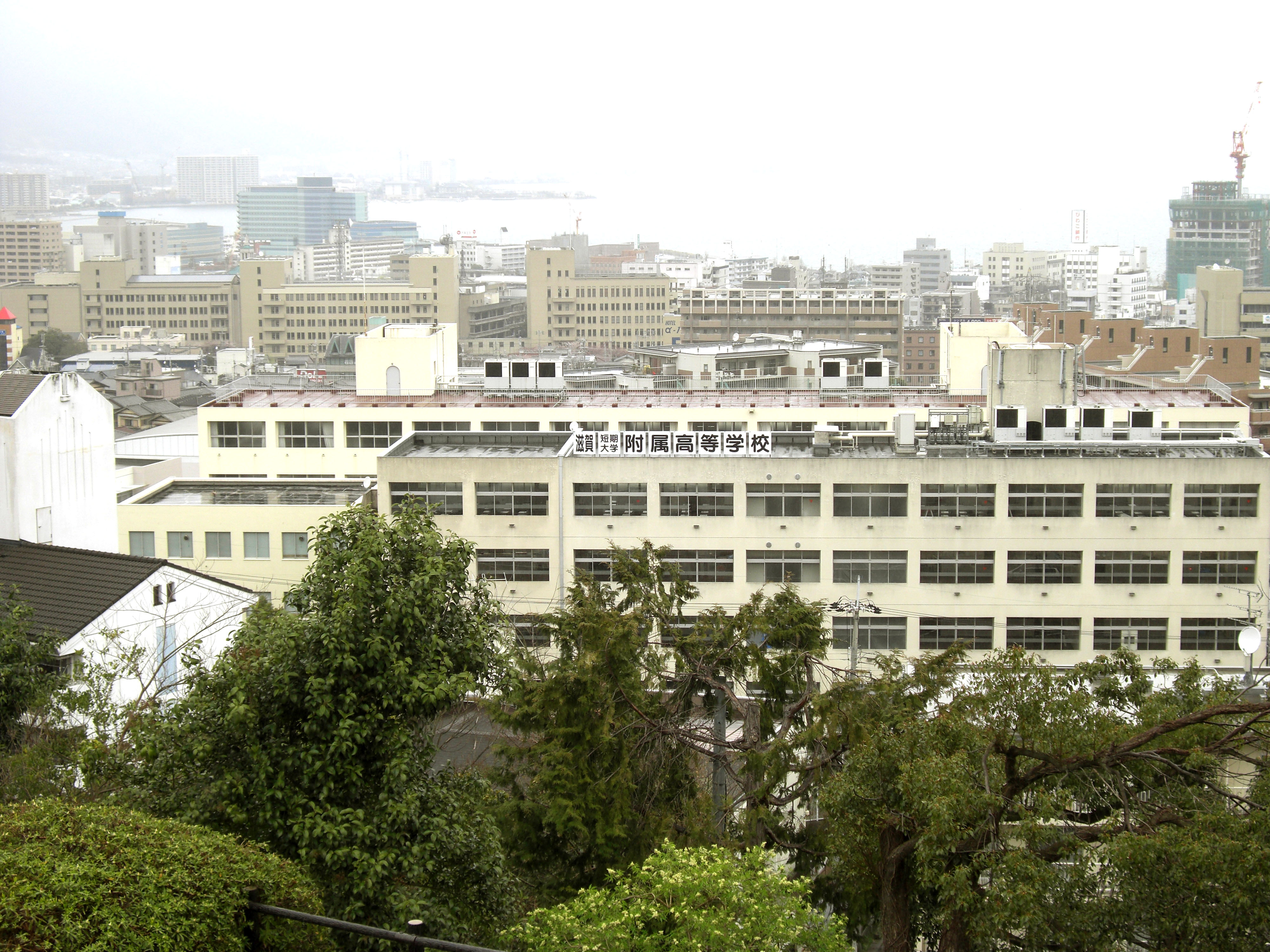 Shiga Junior College High School,Asahigaoka Otsu-City Shiga Japan.